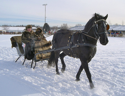 Mariah is a Morgan/Fresian cross owned by a friend of mine. This shot is of Mariah pulling my friend's four seat sleigh (similar to a Portland Cutter) at a show. Both the driver and passenger are dressed in antique fur coats and hats that are appropriate for the period this would represent. The driver won an award for "Best Costume", which was a coat and hat made out of raccoon.